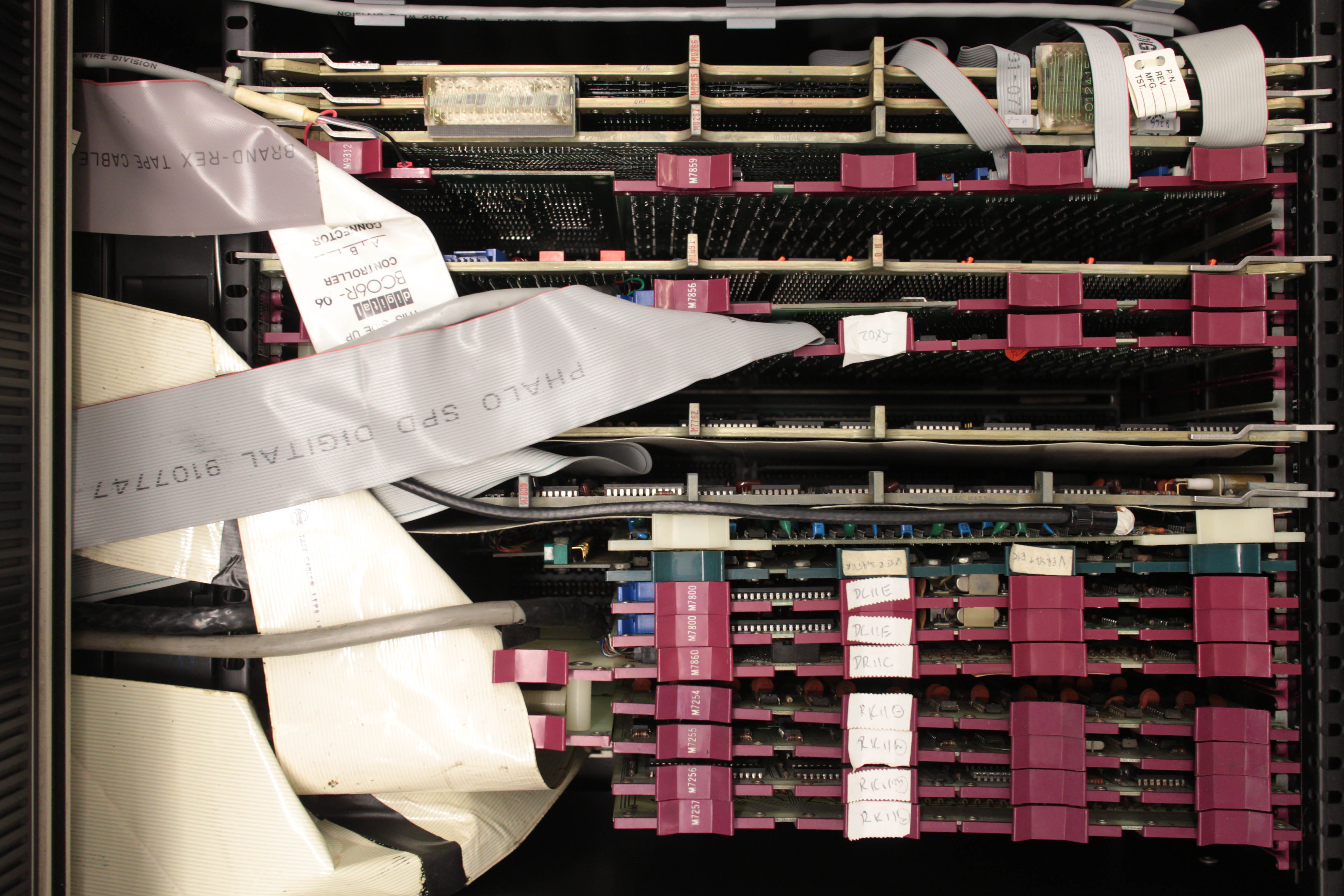 PDP-11/34 top view, showing the Unibus slots with the CPU boards, the bootstrap ROM, a tape controller, an DK drive controller and an analog digital converter.